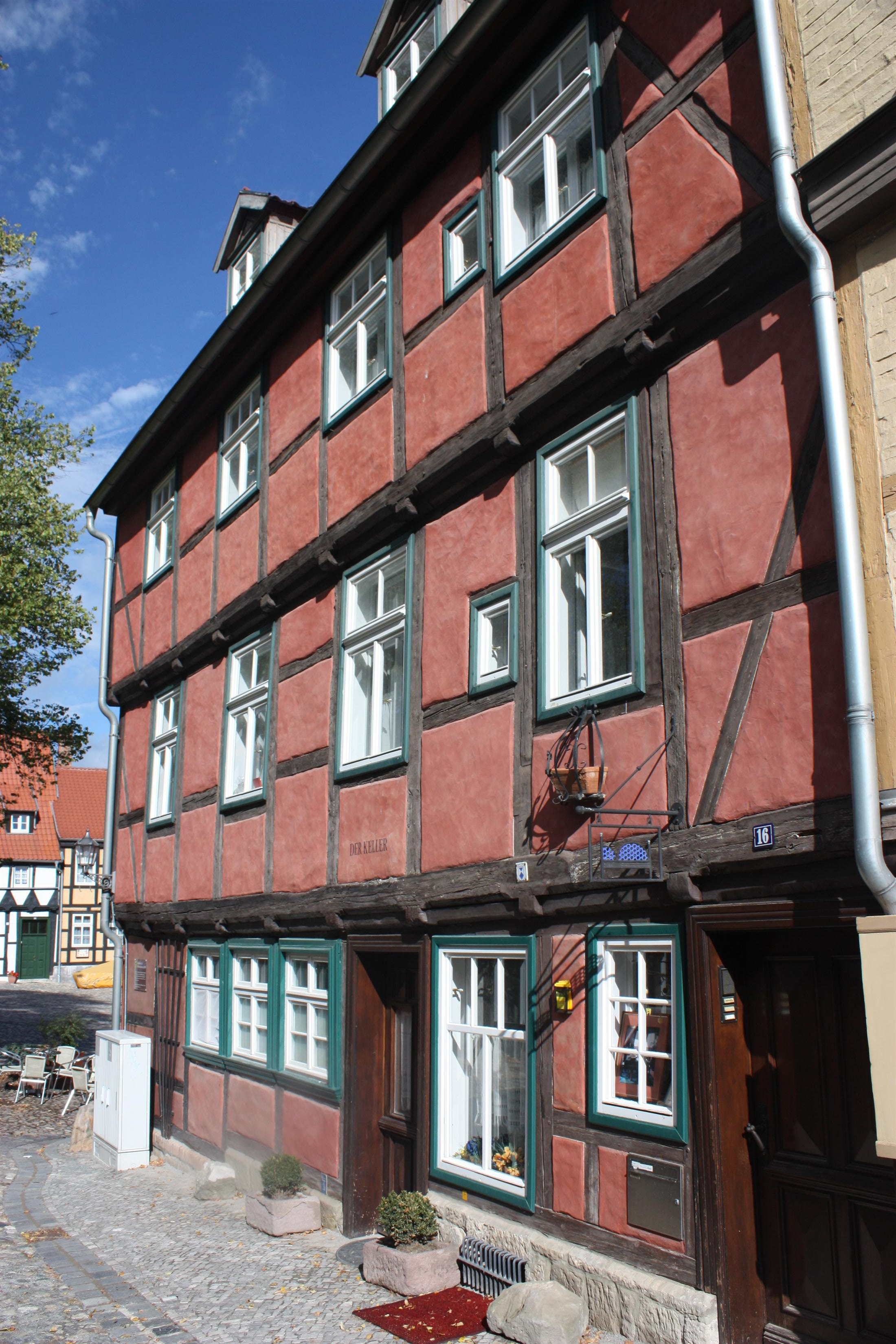 This is a photograph of an architectural monument.It is on the list of cultural monuments of Quedlinburg Quedlinburg Schloßberg